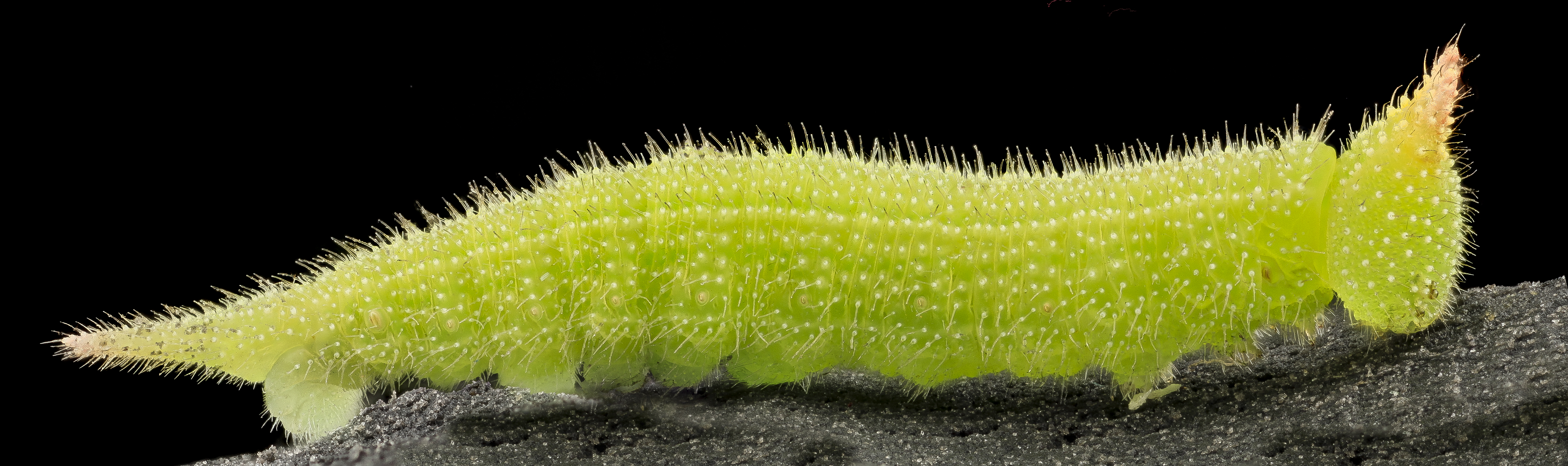 Enodia anthedon, Caterpillar. The luscious greenescent caterpillar of the brown drab northern pearly eye butterfly. check out the 6 little eyes located down near the mouth/mandibles, I feel rather "Hello Kitty" when looking this one in the face Canon Mark II 5D, Zerene Stacker, Photographer: Sam Droege, 65mm Canon MP-E 1-5X macro lens, Twin Macro Flash, F5.0, ISO 100, Shutter Speed 200